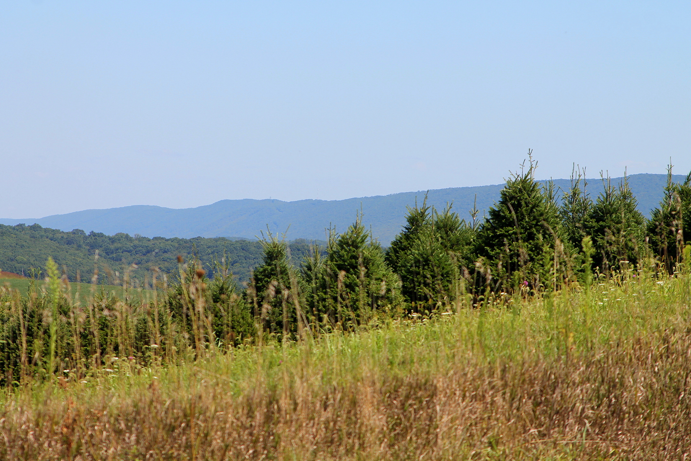 View of Orange Township, Columbia County, Pennsylvania looking southeast from Bowmans Mill Road. Knob Mountain can be seen on the horizon.